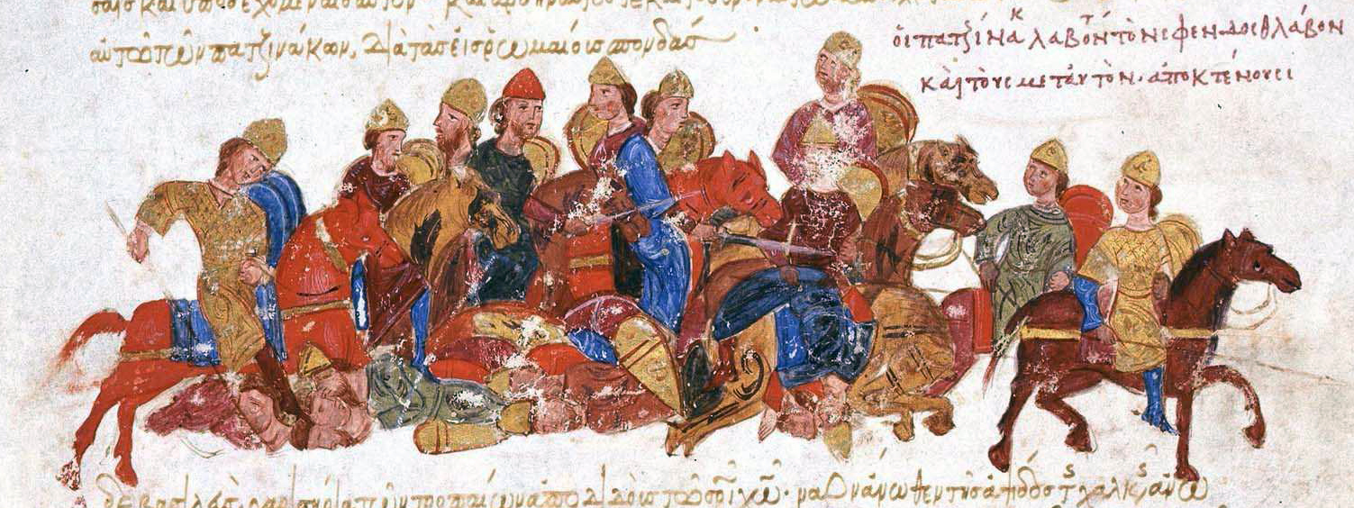 Skyllitzes Matritensis, fol. 173r, detail Miniature: The pechenegs slaughter the "skyths" of Sviatoslav I of Kiev Text from the Chronicle of John Skylitzes: "...When Sviatoslav was making his way back home, as he passed through the land of the Patzinaks, he fell into ambushes already prepared to take him. He and the entire host that accompanied him were completely annihilated, so angry were the Patzinaks with him for having made a treaty with the Romans..." (Translated by John Wortley, in: John Skylitzes: A Synopsis of Byzantine History, 811-1057: Translation and Notes, p. 293) References: Ioannis Scylitzae Synopsis Historiarum. Editio Princeps. Rec. Ioannes Thurn, p. 310, in: Corpus Fontium Historiae Byzantinae 5 Series Berolinensis, 1973 Tsamakda V.: The illustrated chronicle of Ioannes Skylitzes in Madrid, p. 211